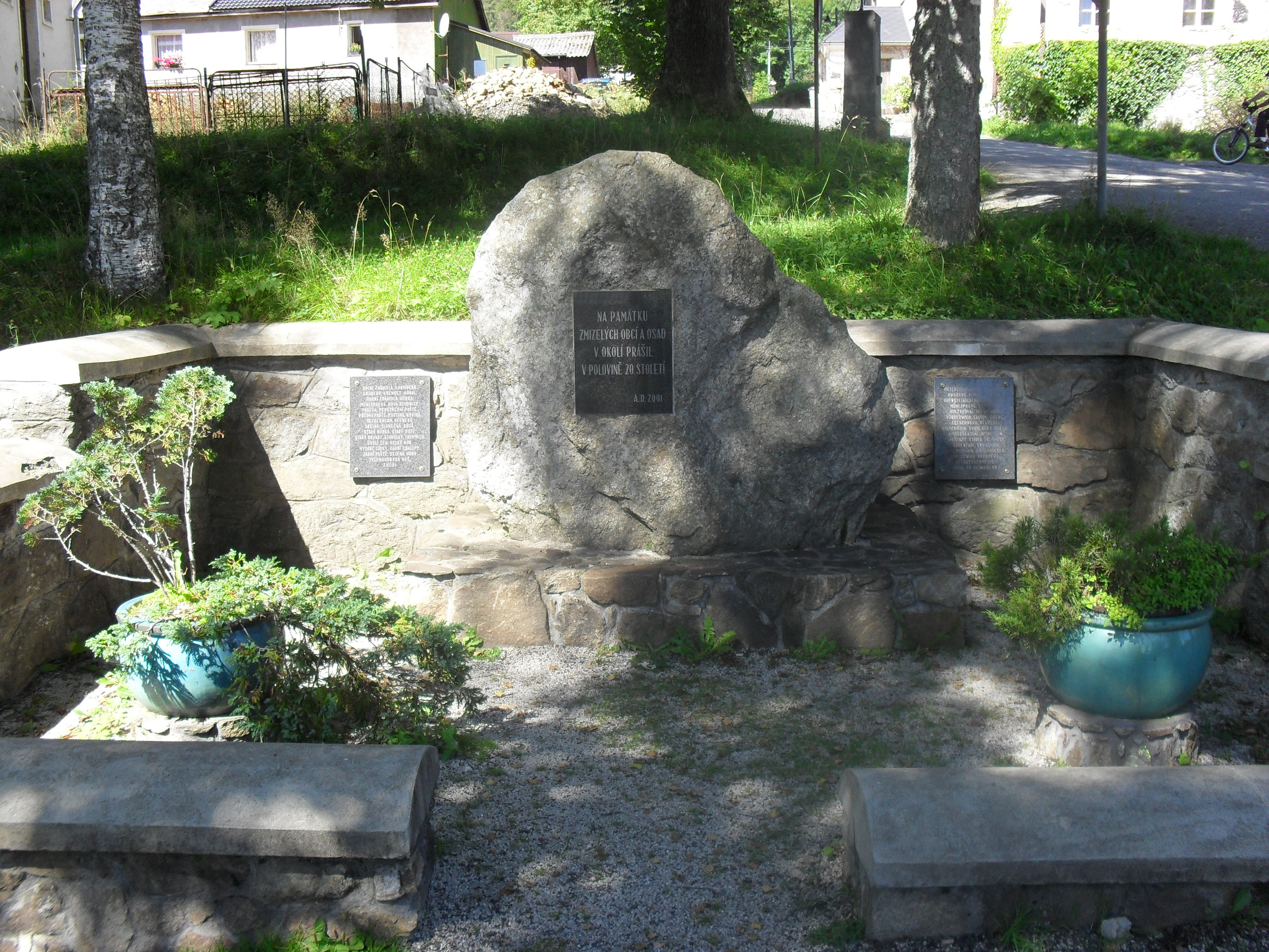 Memorial of villages destroyed by Czechoslovak army on 50th years of 20th century